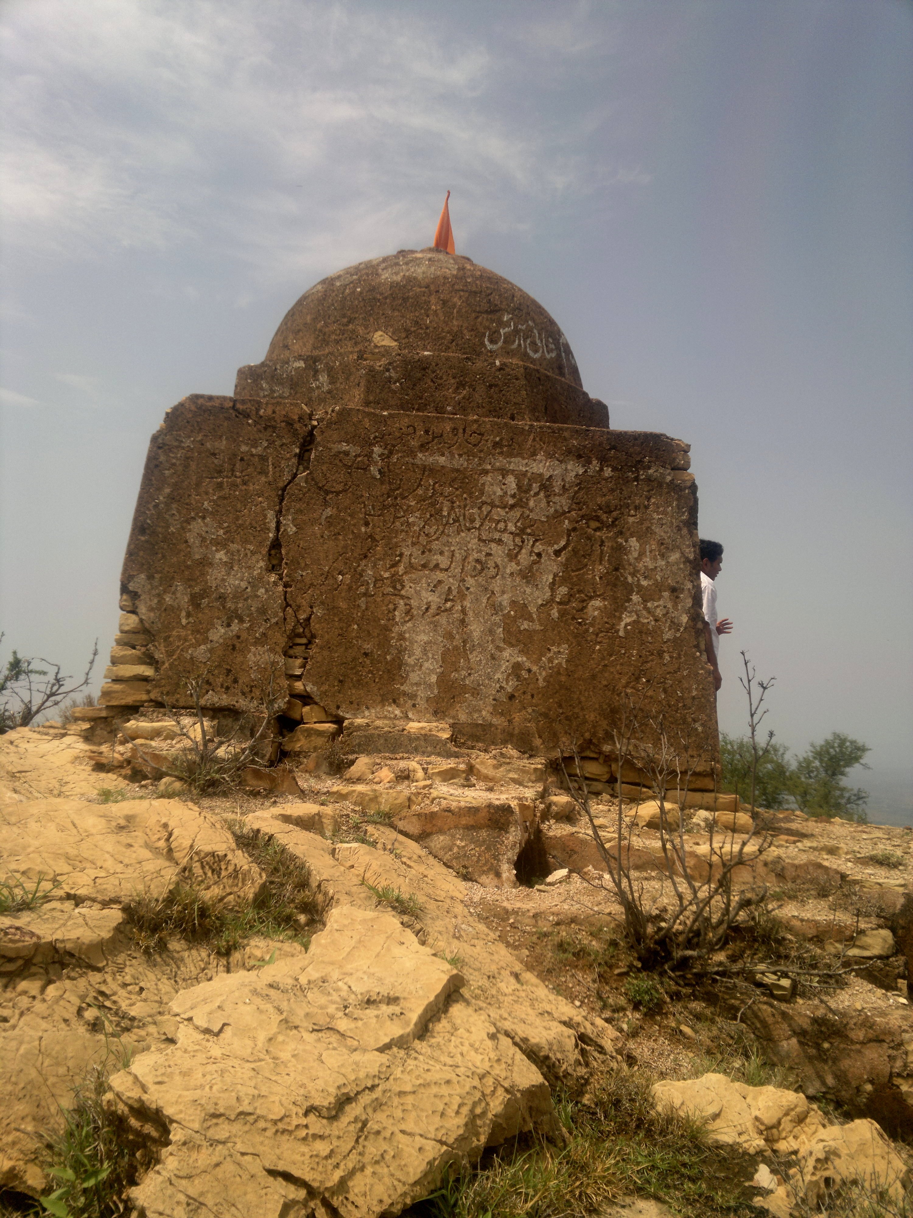 Hindu Temples This is a photo of a monument in Pakistan identified as the PB-U-25